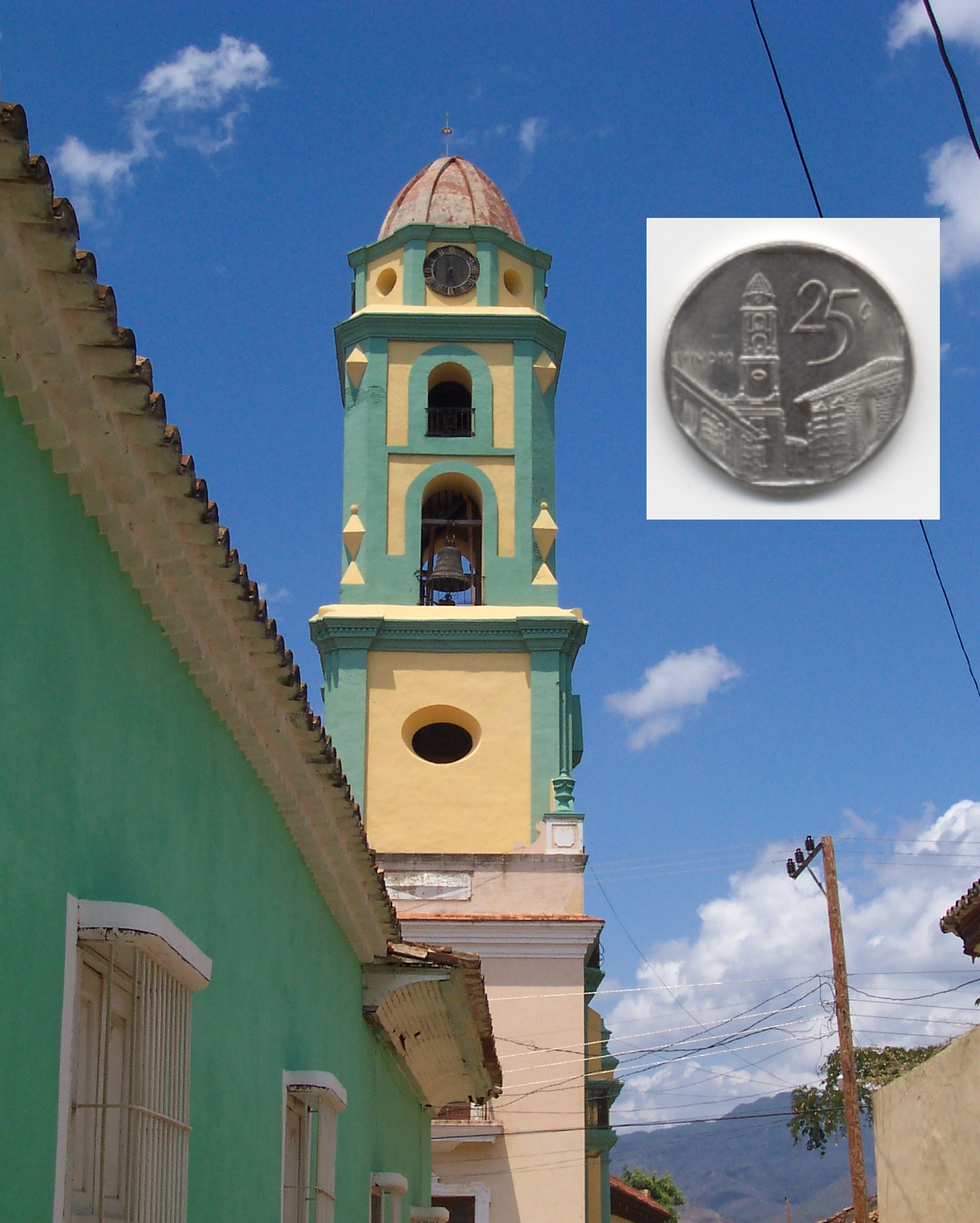 Iglesia y Convento de San Francisco y 25 centavos, Trinidad, Cuba